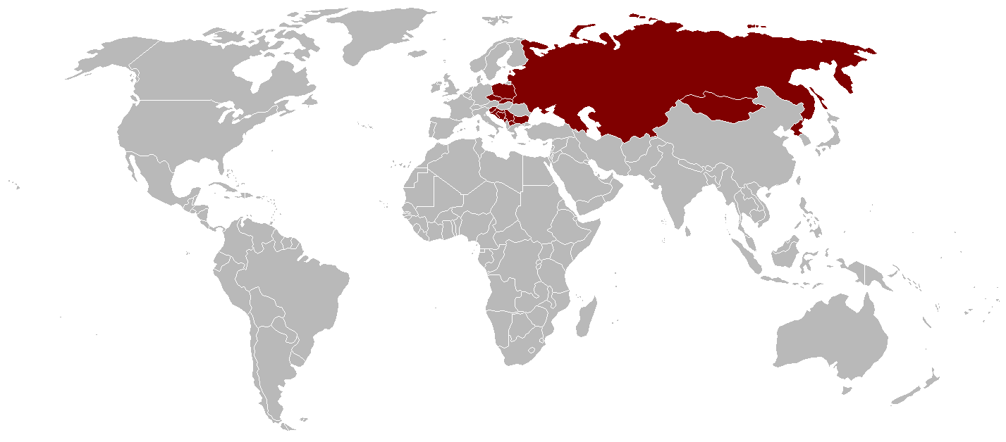 World map of Ilyushin Il-2 operators